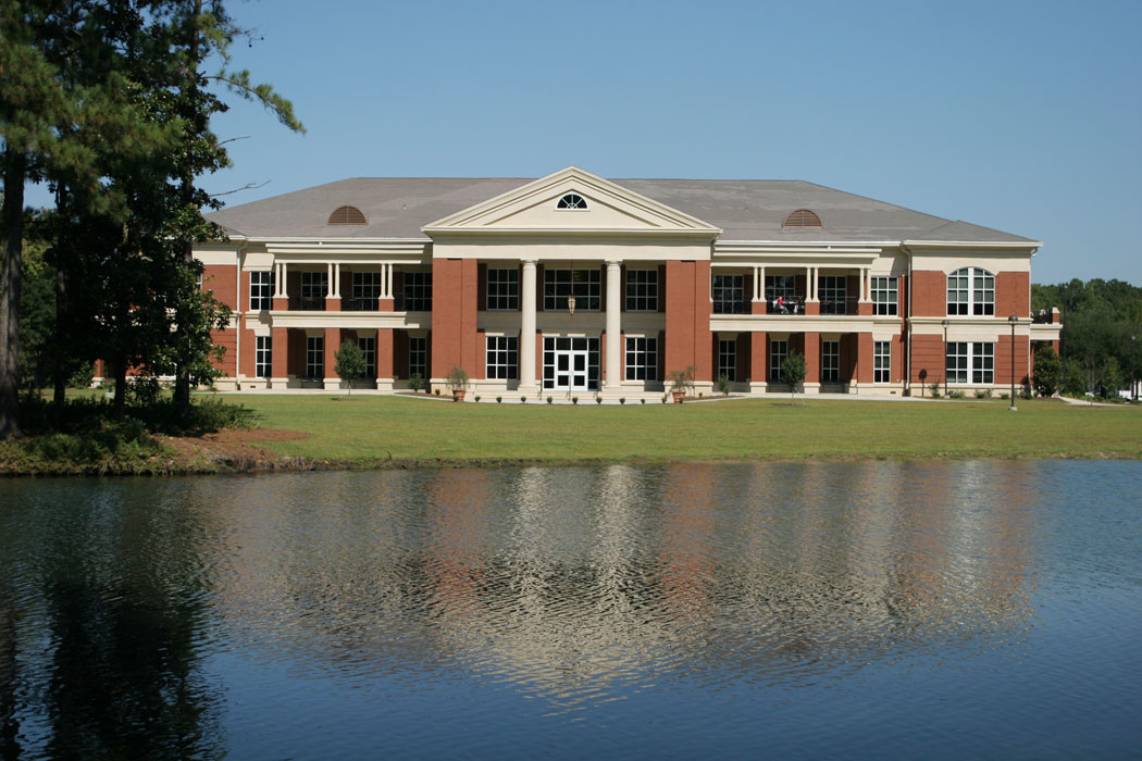 FMU